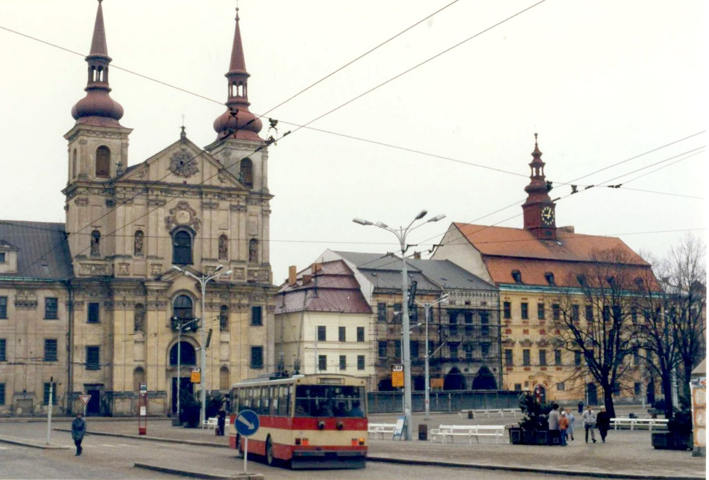 Škoda 14Tr trolleybus in Jihlava, Czech Republic, 1992